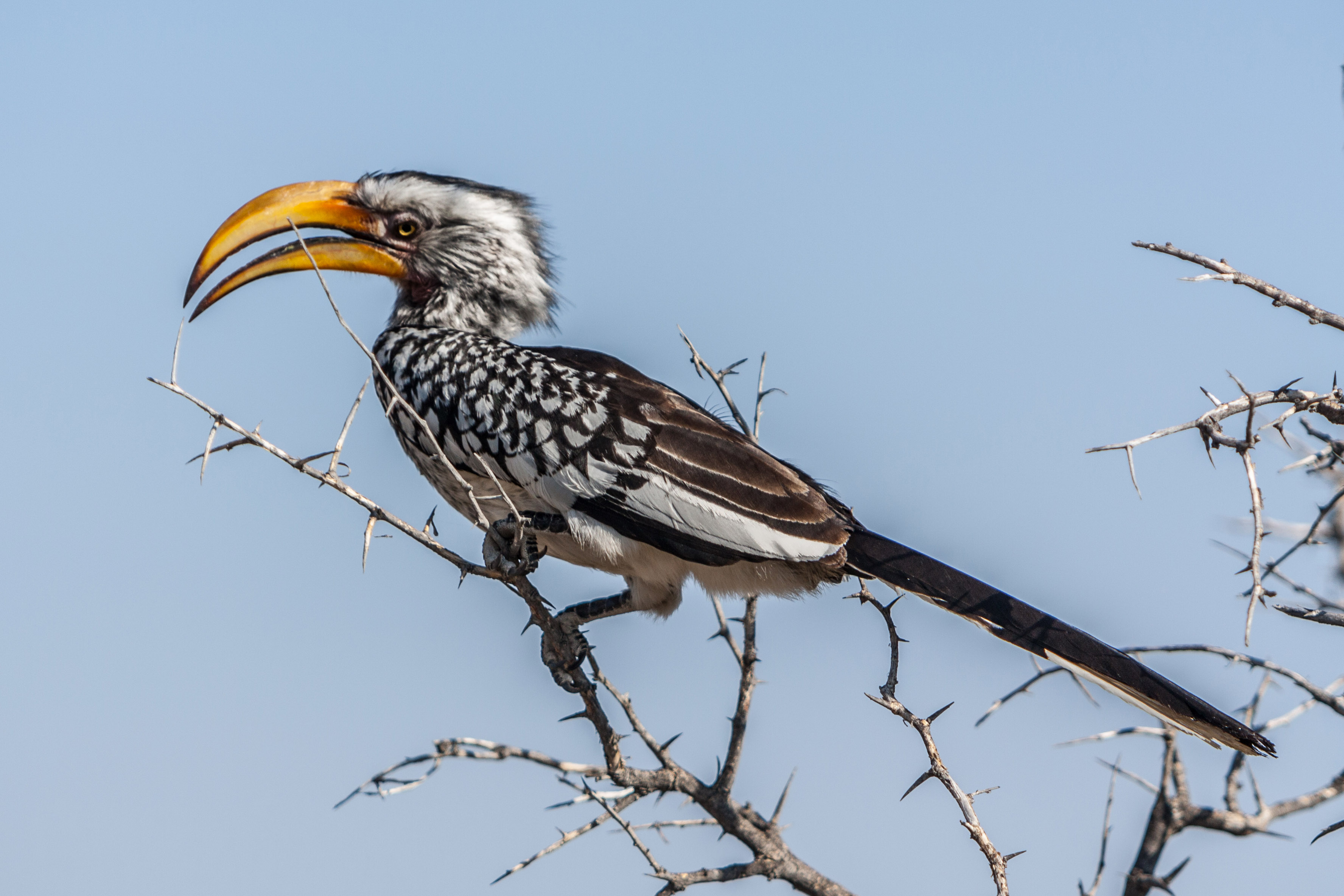 Southern yellow-billed hornbill, Etosha National Park